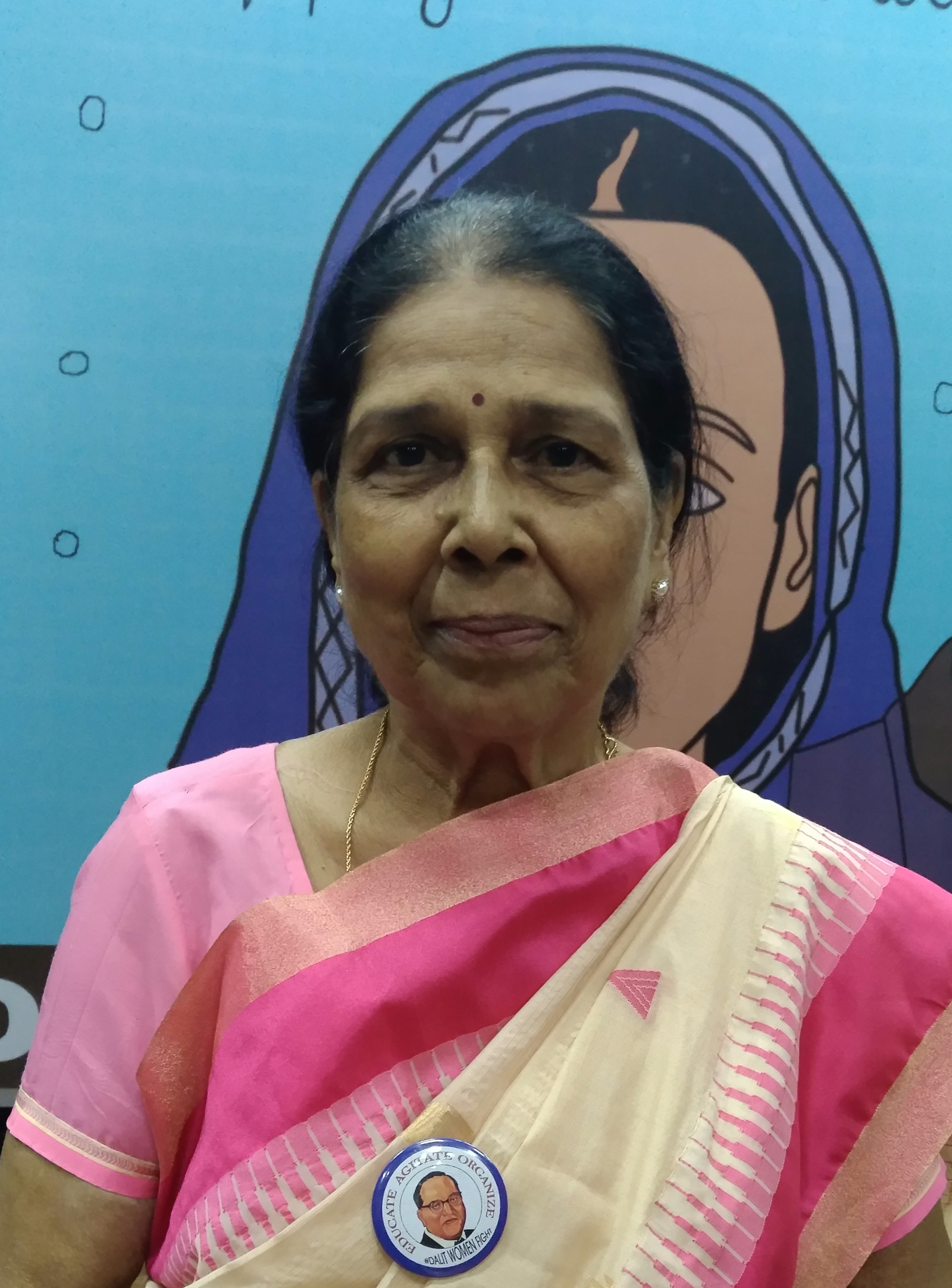 Urmila pawar @ Savitribai Phule Pune University